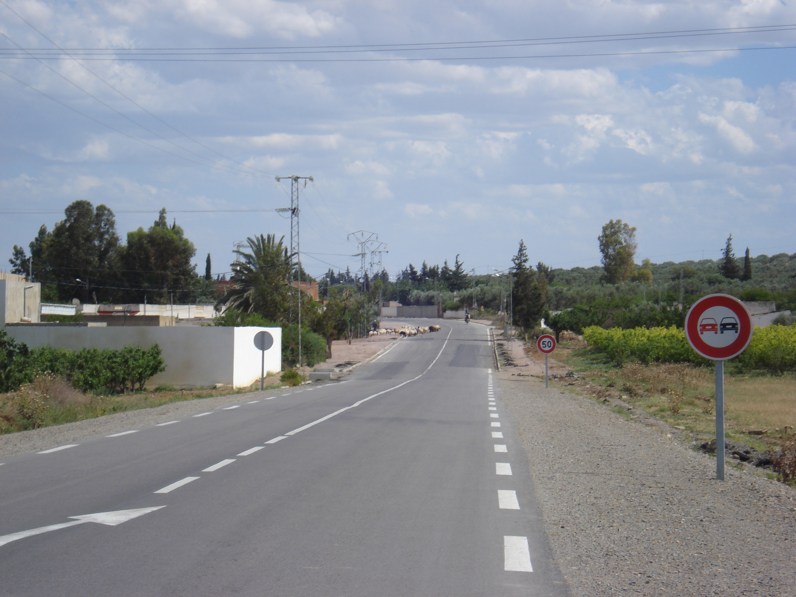 Hathermine, Tunisia